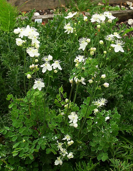 A neat small species from the Mediterranean, ideal for sunny well-drained places. Watch out for the little mauve 'currants' on the surface of the soil that are the cryptically coloured new leaves in spring